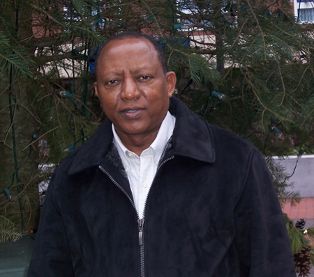 Photo of former Tanzanian Prime Minister Frederick Sumaye, taken in Cambridge, MA, on December 17, 2006. Photo taken by Jessica Mushi for Wikimedia Commons, used with permission of the photographer and the subject.